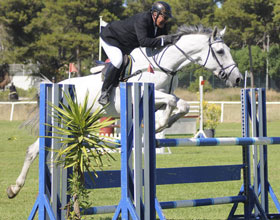 José Cid numa prova equestre.